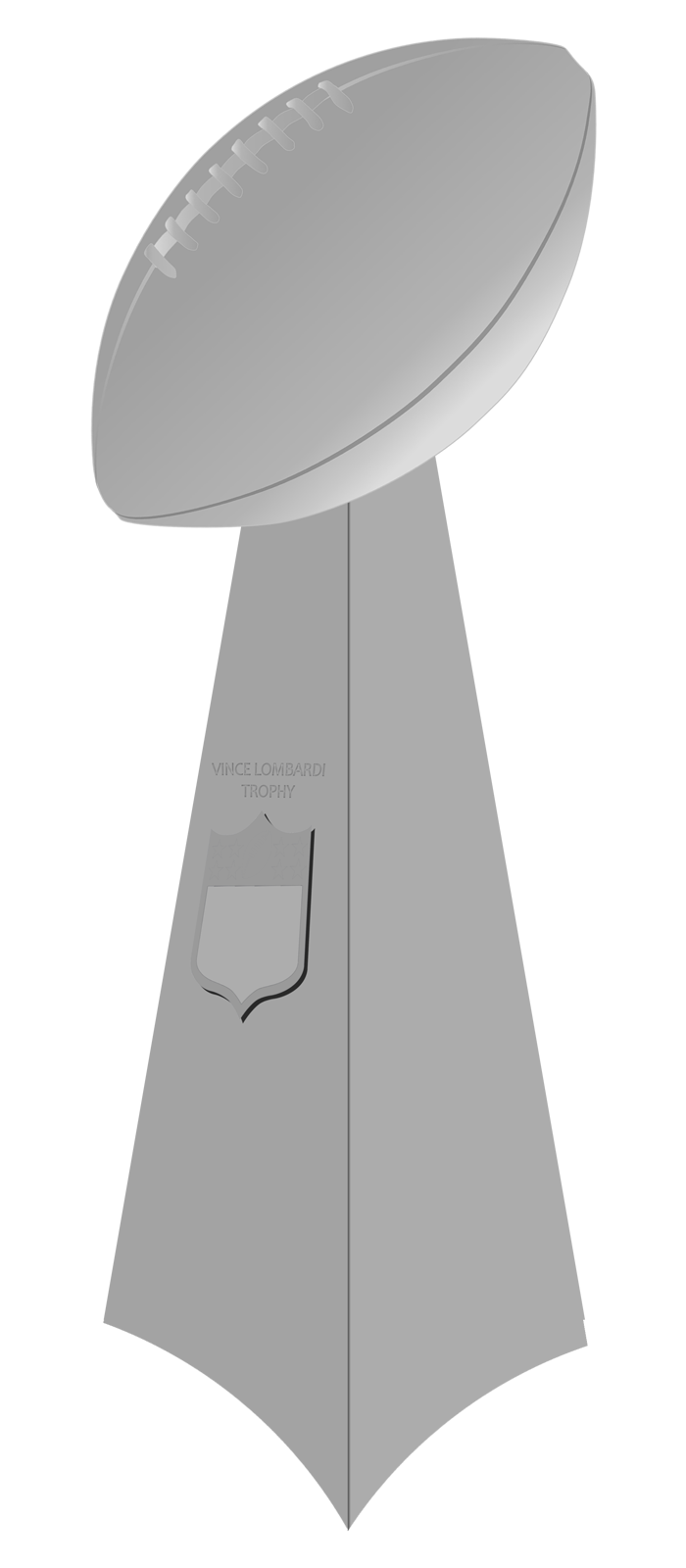 The Vince Lombardi Trophy, the trophy won by the NFL Champions team since 1969 season